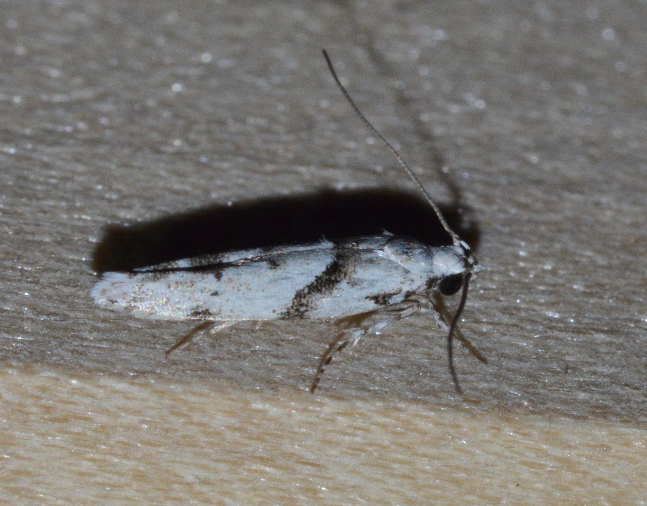 Arogalea cristifasciella – Stripe-backed Moth (ID thanks to Merrill Lynch)